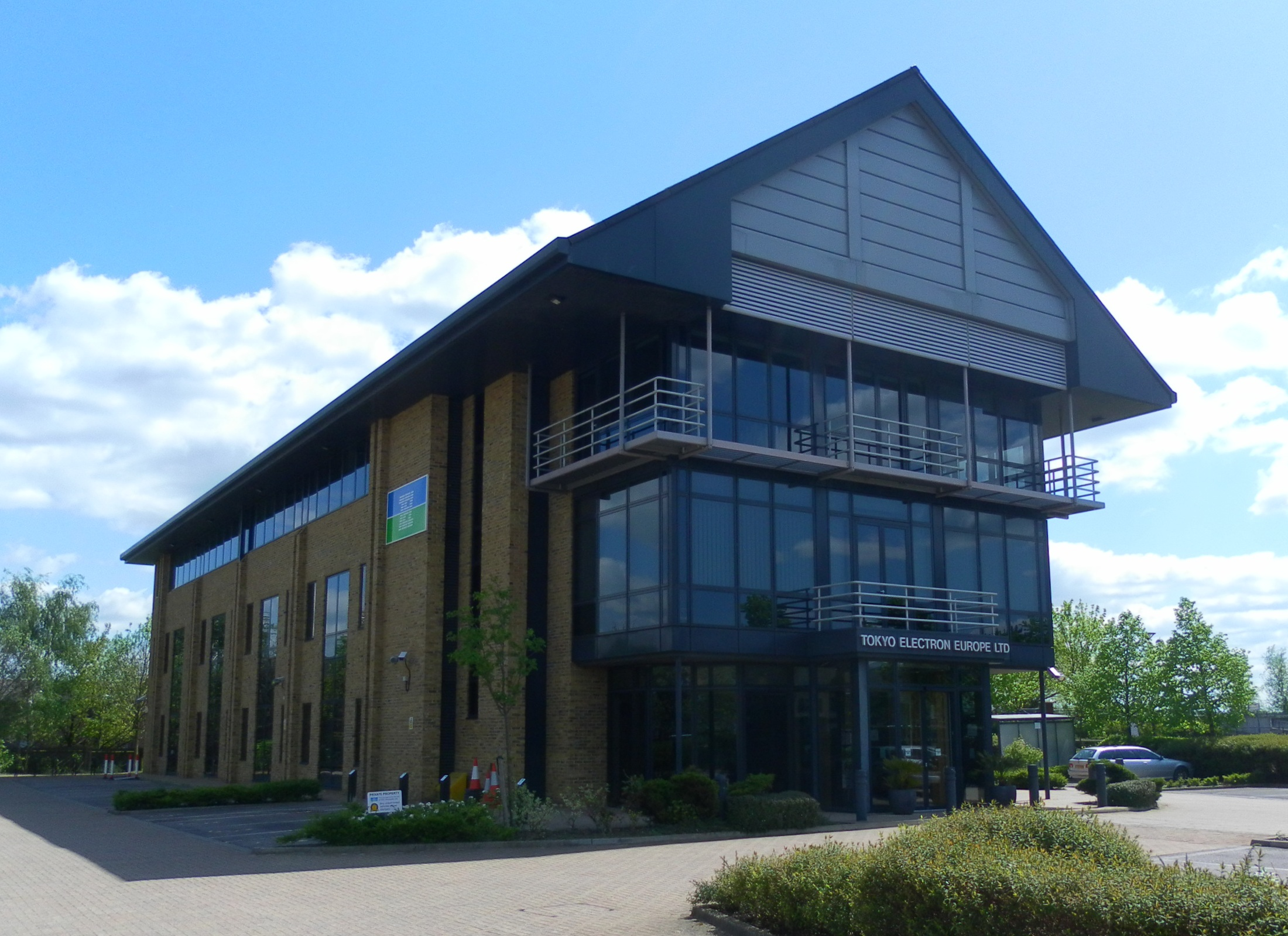 Tokyo Electron Europe headquarters, Manor Royal, Crawley, West Sussex, England.